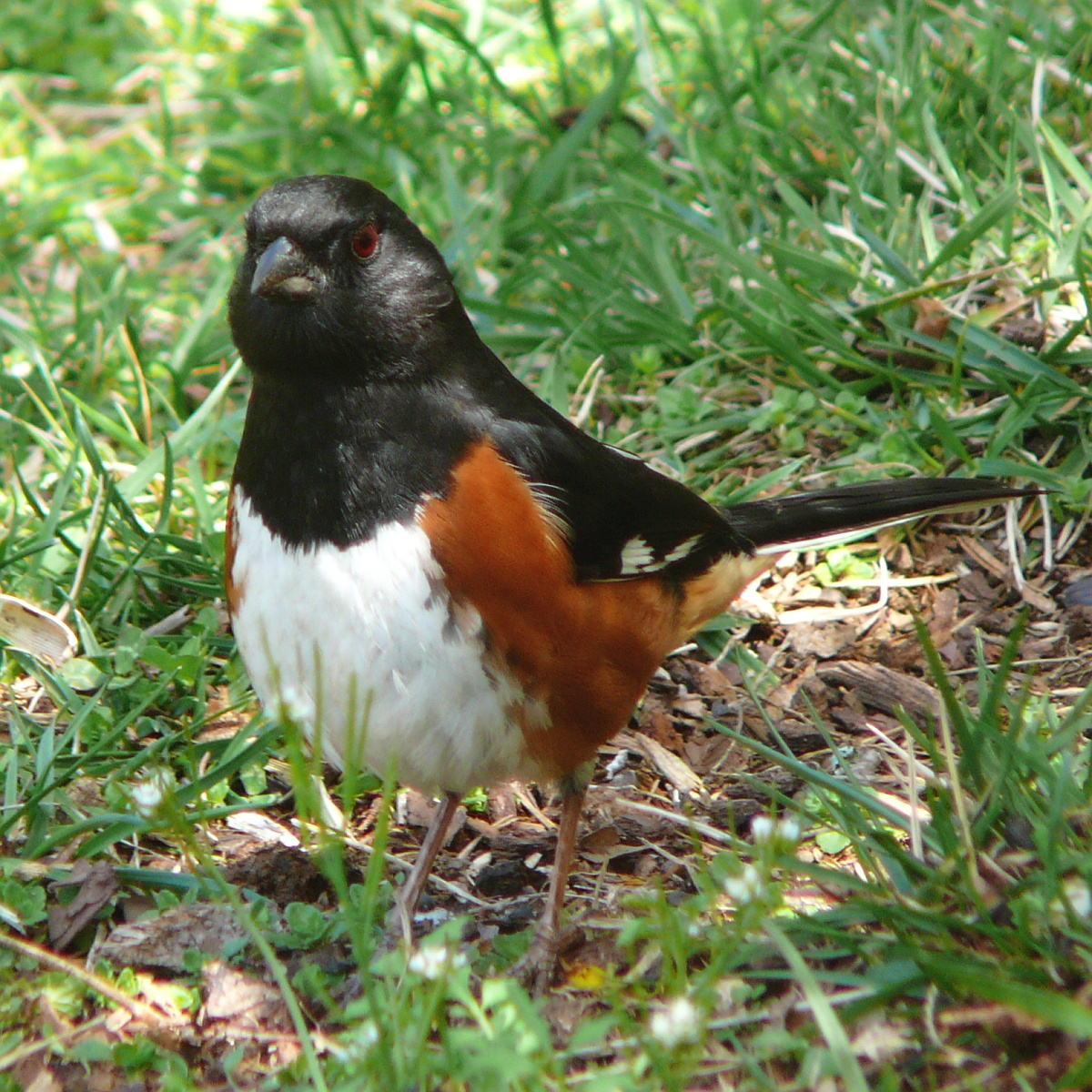 A male Eastern Towhee (Pipilo erythrophthalmus) feeding in the grass. Photo taken with a Panasonic Lumix DMC-FZ50 in Caldwell County, North Carolina, United States.